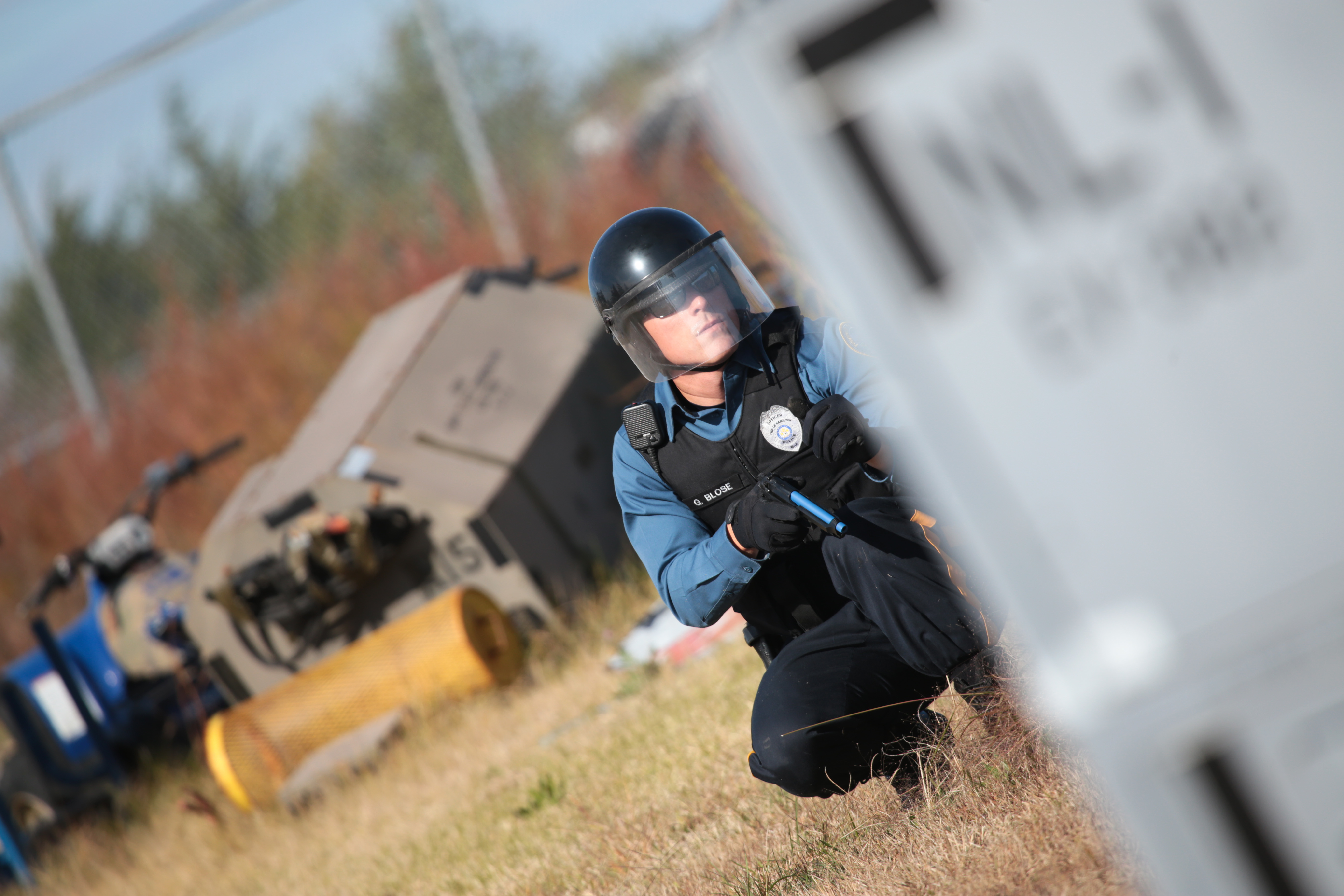 A local police officer takes cover behind machinery during an active shooter exercise at Atlantic City Air National Guard Base, N.J., Oct. 24, 2014. The New Jersey Air National Guard's 177th Security Forces Squadron hosted the training event, which was the culmination of Active Shooter and Tactical Combat Casualty Care classes attended by Security Forces Airmen as well as police officers from the local community. (U.S. Air National Guard photo by Tech. Sgt. Matt Hecht/Released)